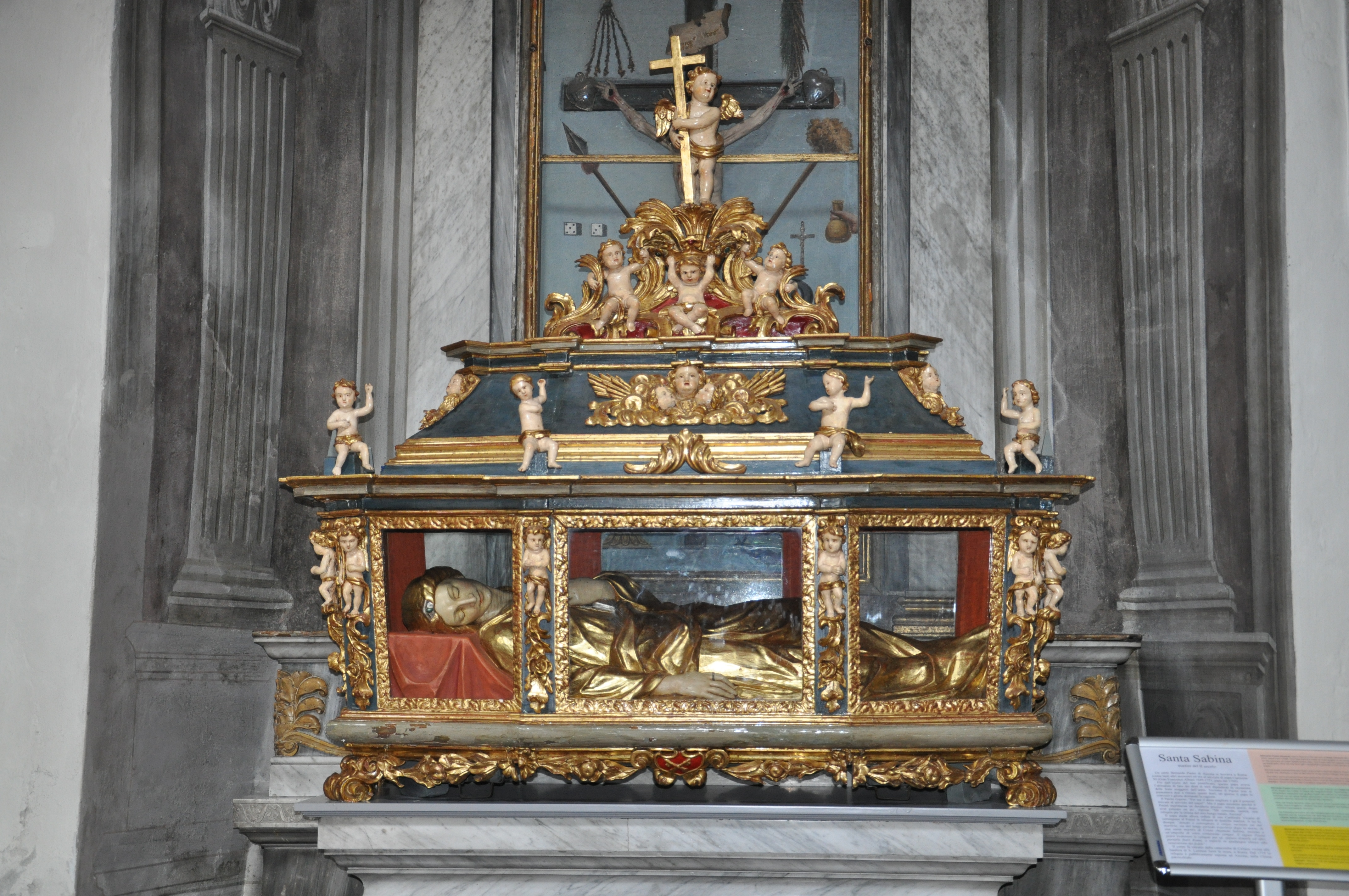 This photo is showing the coffin of the saint Sabina, which is buried in the church "Santi Pietro e Paolo" in Ascona.